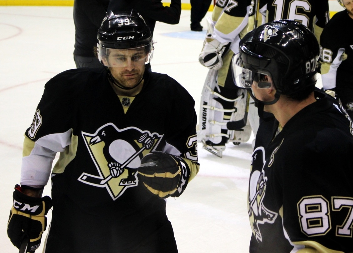 Pittsburgh Penguins forward Harry Zolnierczyk skating against the Calgary Flames, December 21, 2013 at Consol Energy Center in Pittsburgh, PA.